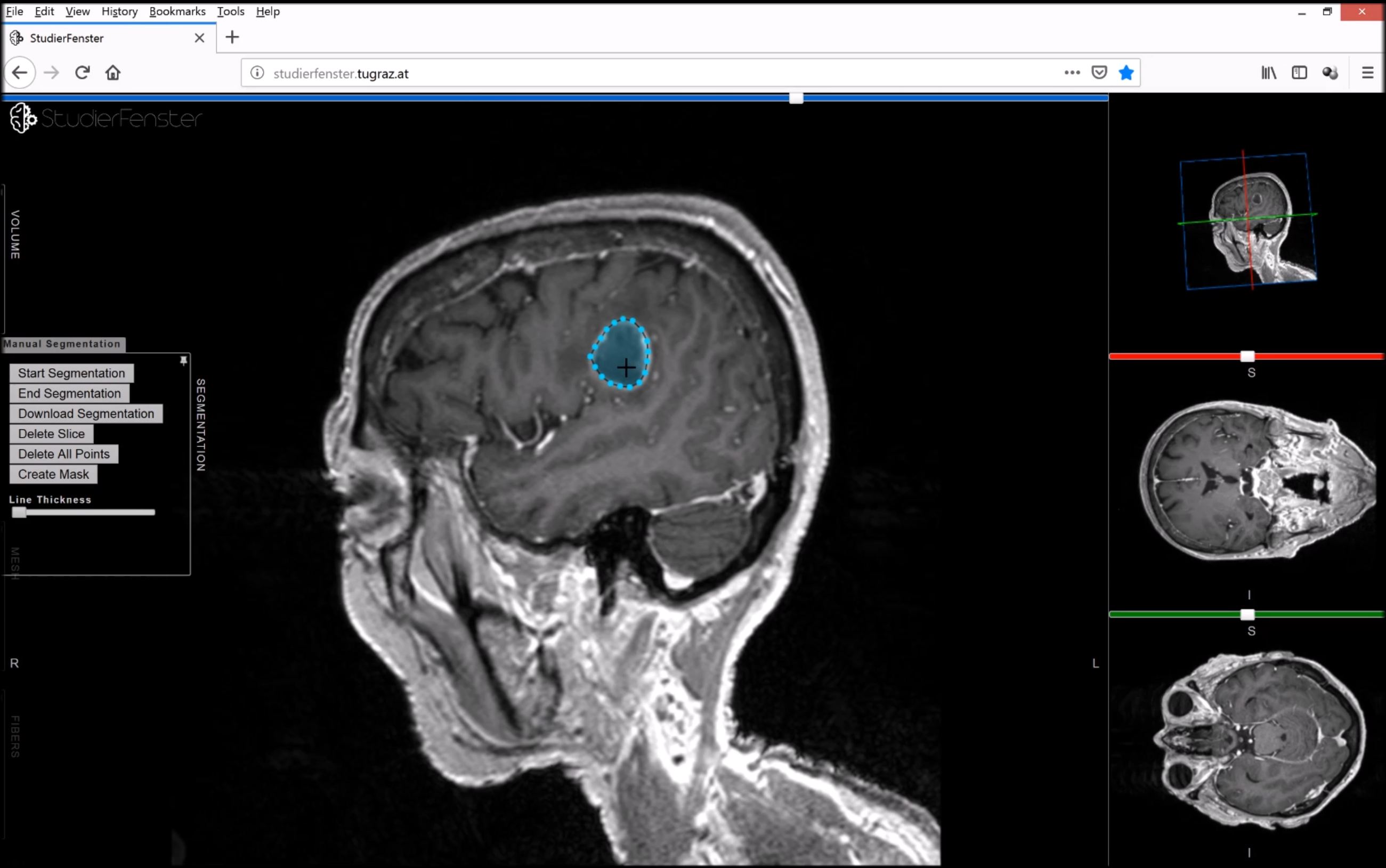 Studierfenster is an Open Science client/server-based Medical Imaging Processing (MIP) online framework The screenshot shows the manual segmentation of a brain tumor (Glioblastoma Multiforme (GBM)) in an Magnetic Resonance Imaging (MRI) scan of a patient.